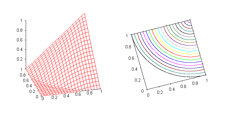 A 3D and contour graph of the Yager t-norm with the parameter equal to 2